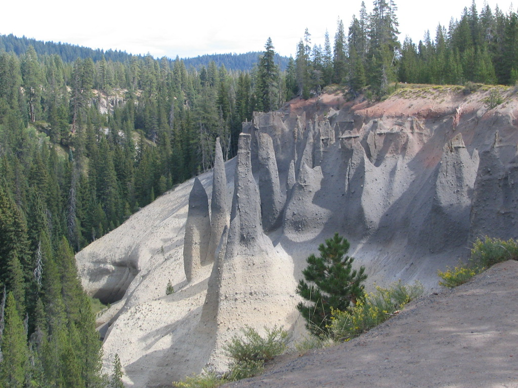 View of the Pinnacles in Crater Lake National Park. Picture taken 16 September 2005.